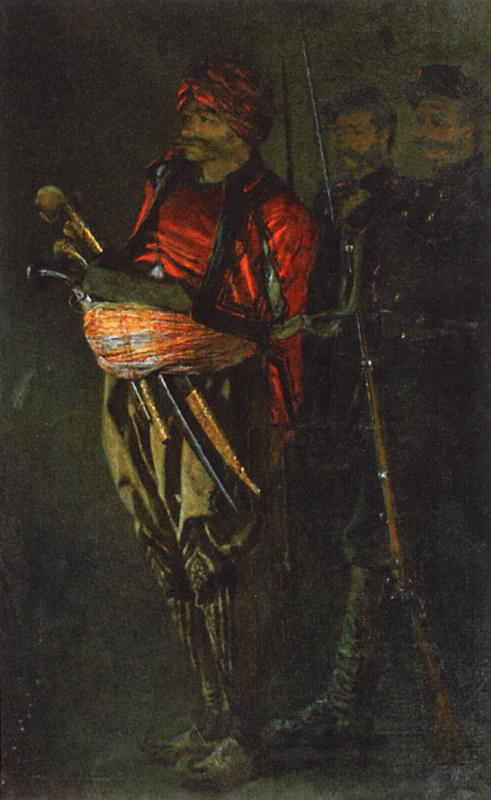 Bashi-bazouk (Albanian)